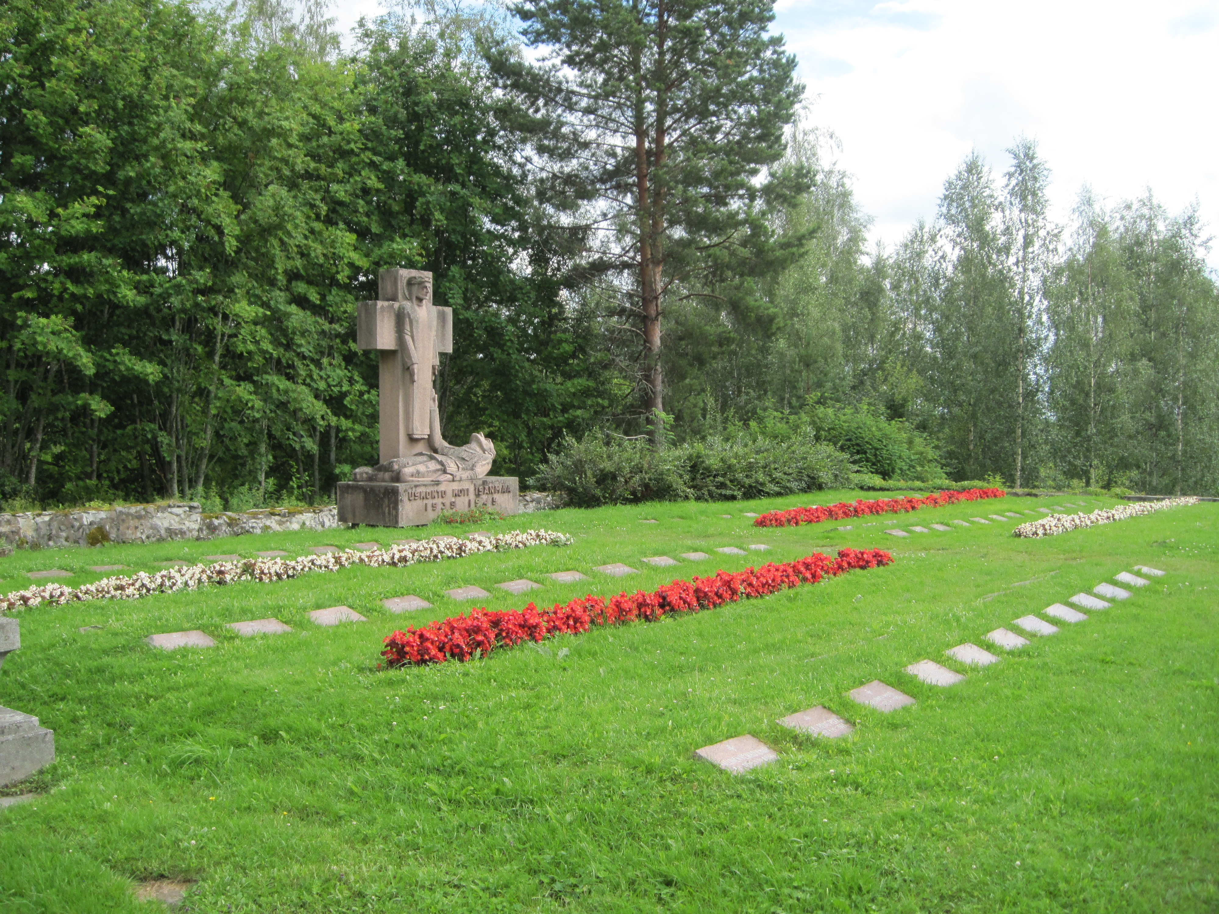 Military cemetary at church in Rääkkylä, Finland